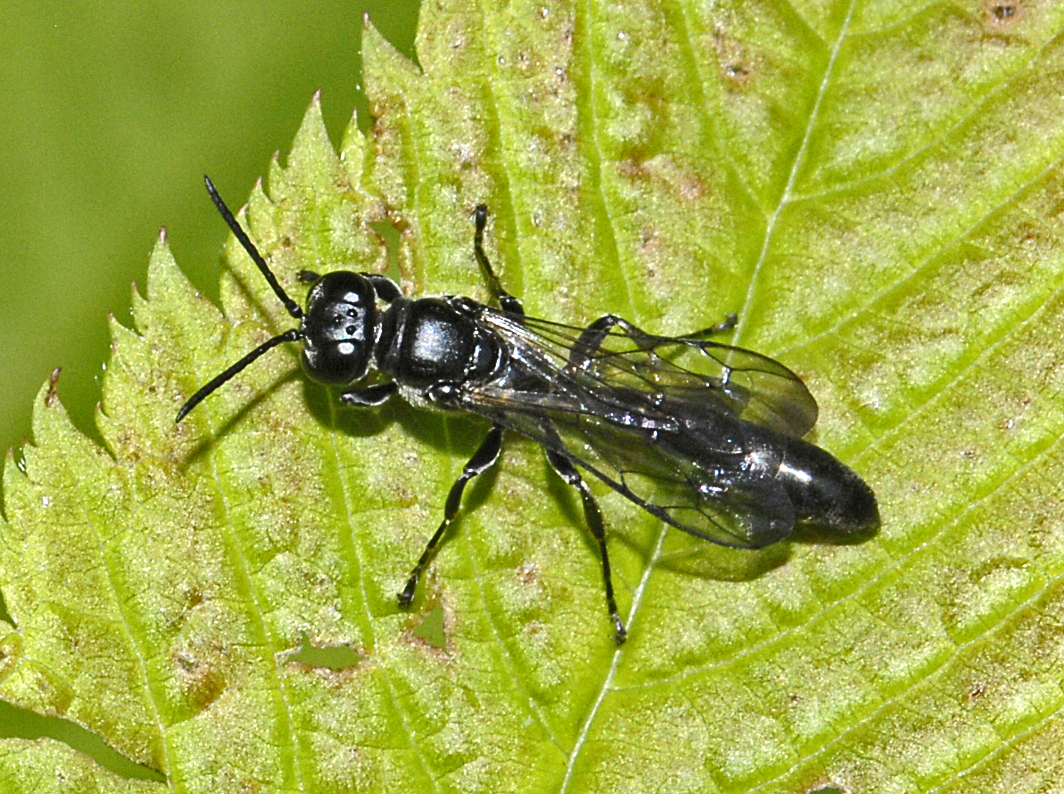 Trypoxylon species. Piani di Praglia, Genova, Italy